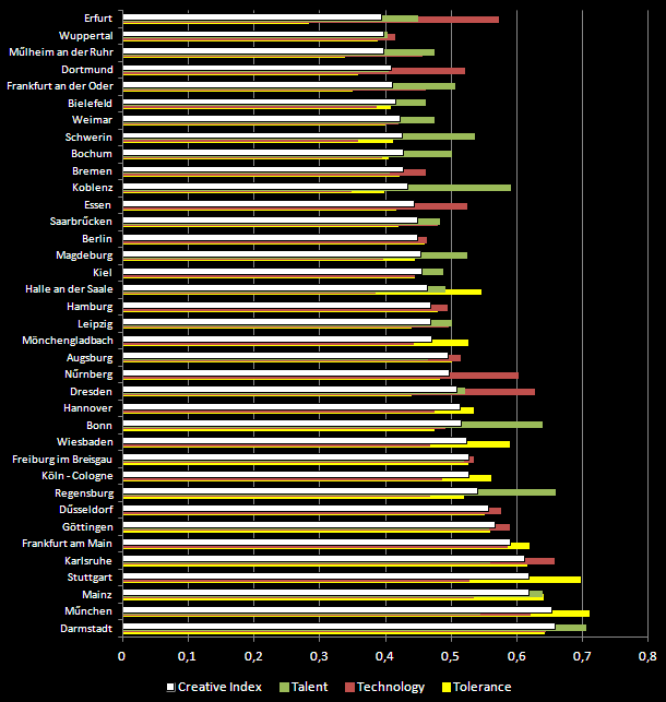 Selected towns in Germany, according to the New Creative Index